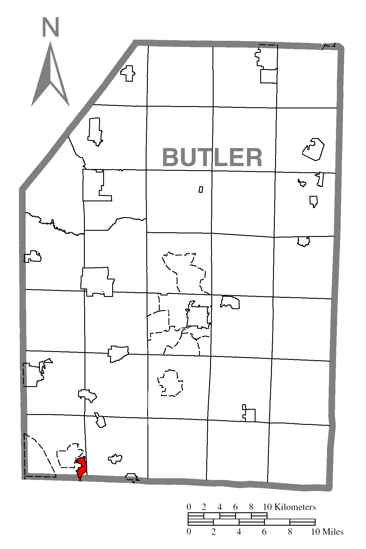 A map of Butler County showing Seven Fields, Pennsylvania (alternate) highlighted on the map.